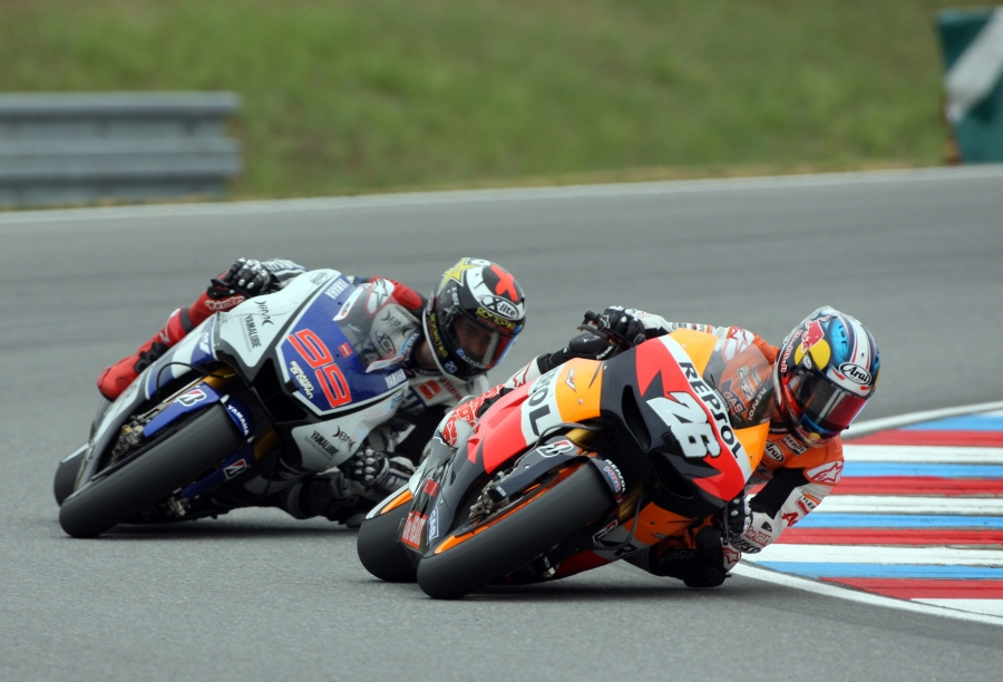 Dani Pedrosa, riding his Repsol Honda, being closely followed by the Factory Yamaha of Jorge Lorenzo at the 2012 Czech Republic Grand Prix.